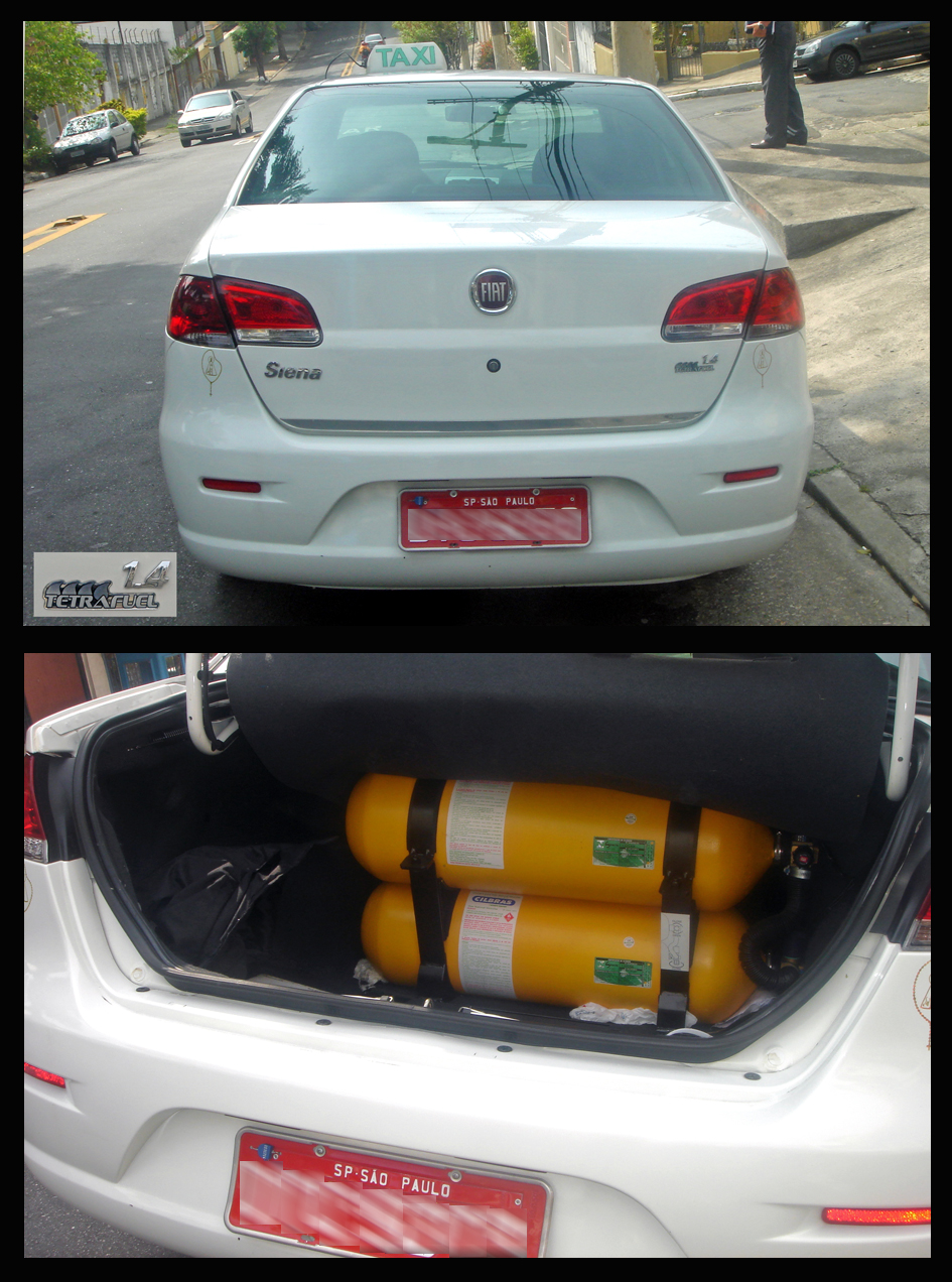 Picture taken at Sao Paulo, Brazil, of the new Fiat Siena Tetrafuel 1.4 model 2008 (two views edited with Photoshop, zoom in is the Tetrafuel logo -cut and paste from the same image